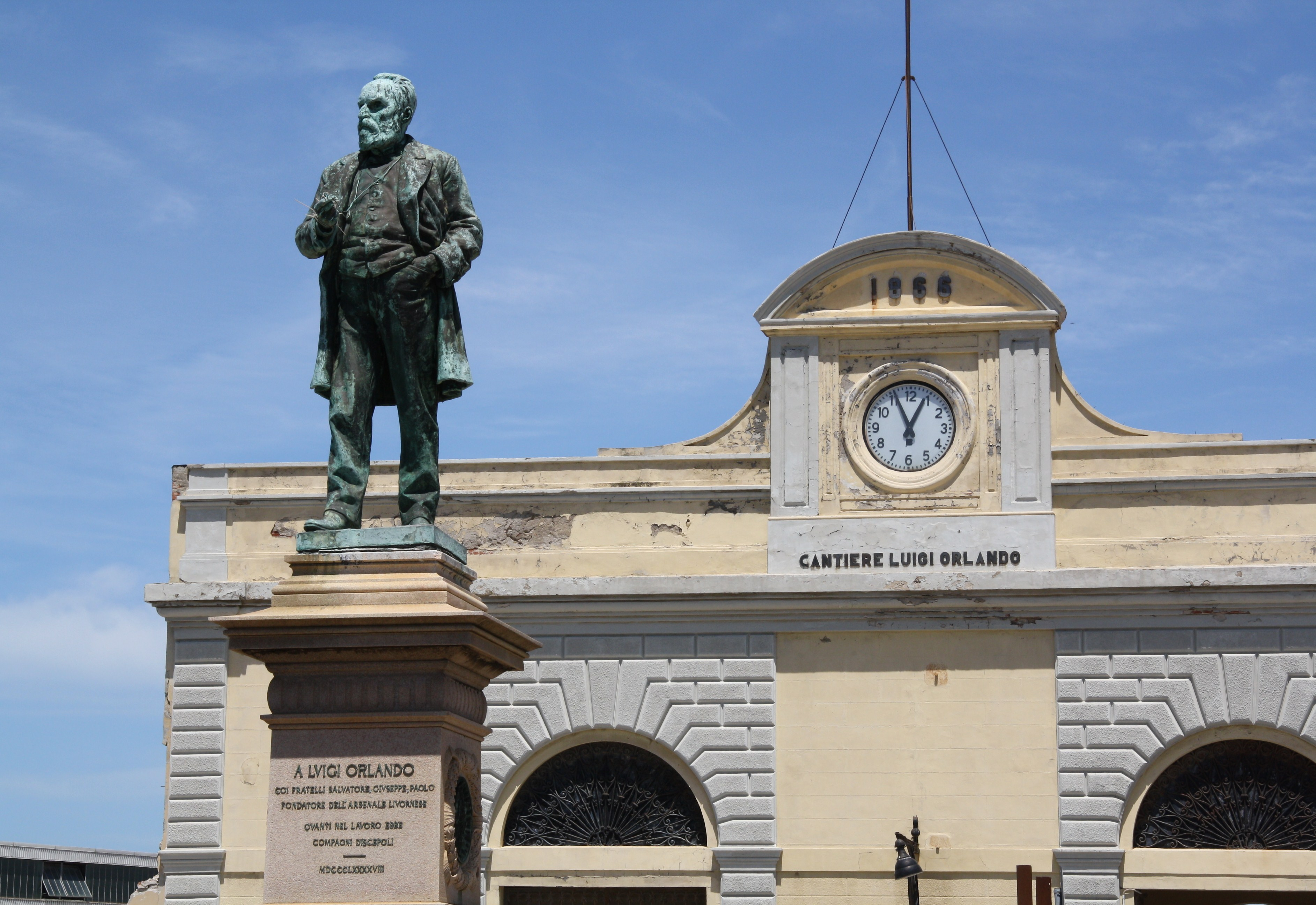 Italy, Livorno, Piazza Luigi Orlando. The old front of Cantiere navale fratelli Orlando and the monument to its founder Luigi Orlando.